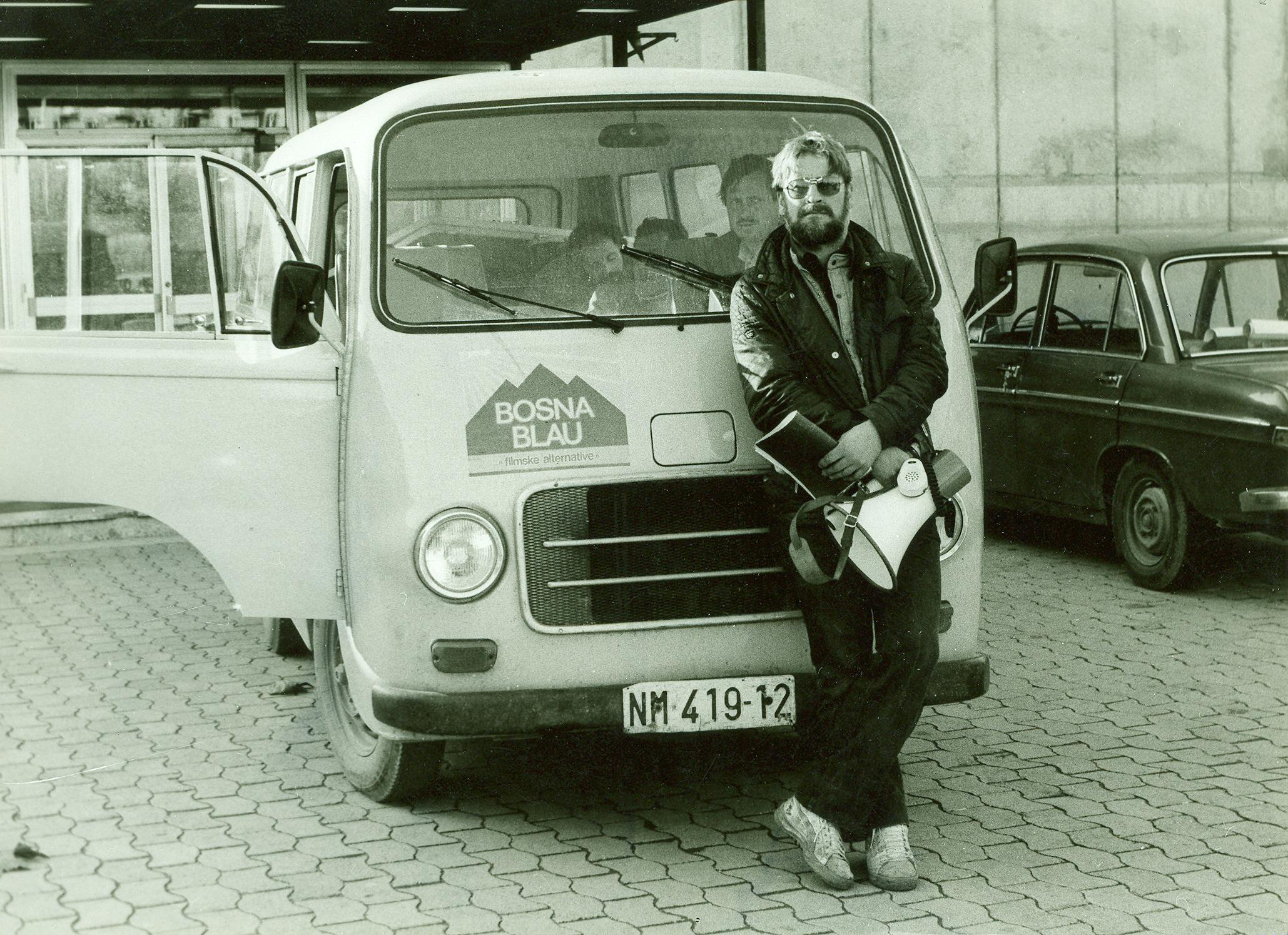 Scenarist in režiser Filip Robar Dorin na lokaciji